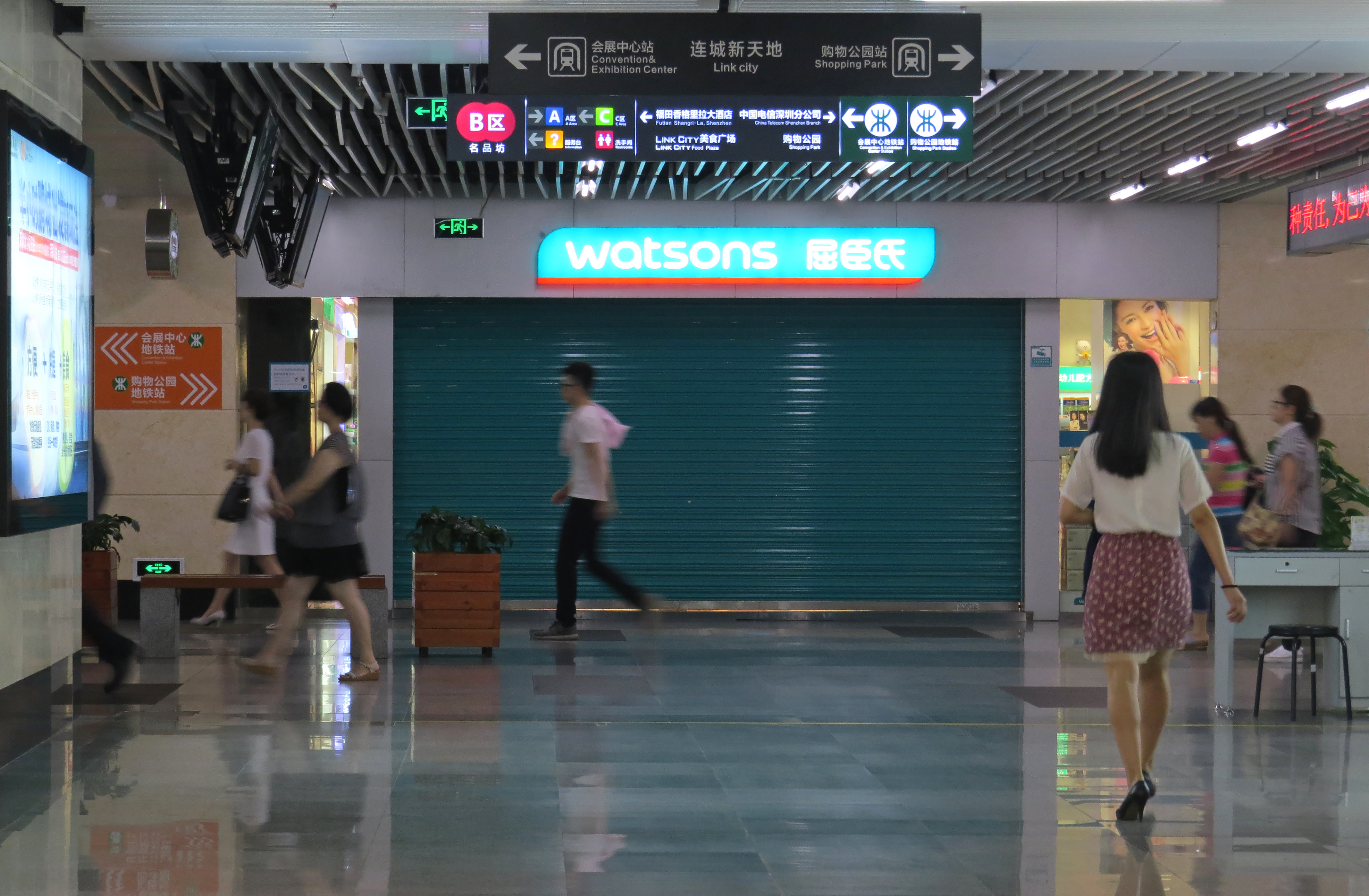 This passage leads to Convention & Exhibition Center Station, where passengers can transfer to Line 4 which stops service at Futian Port.